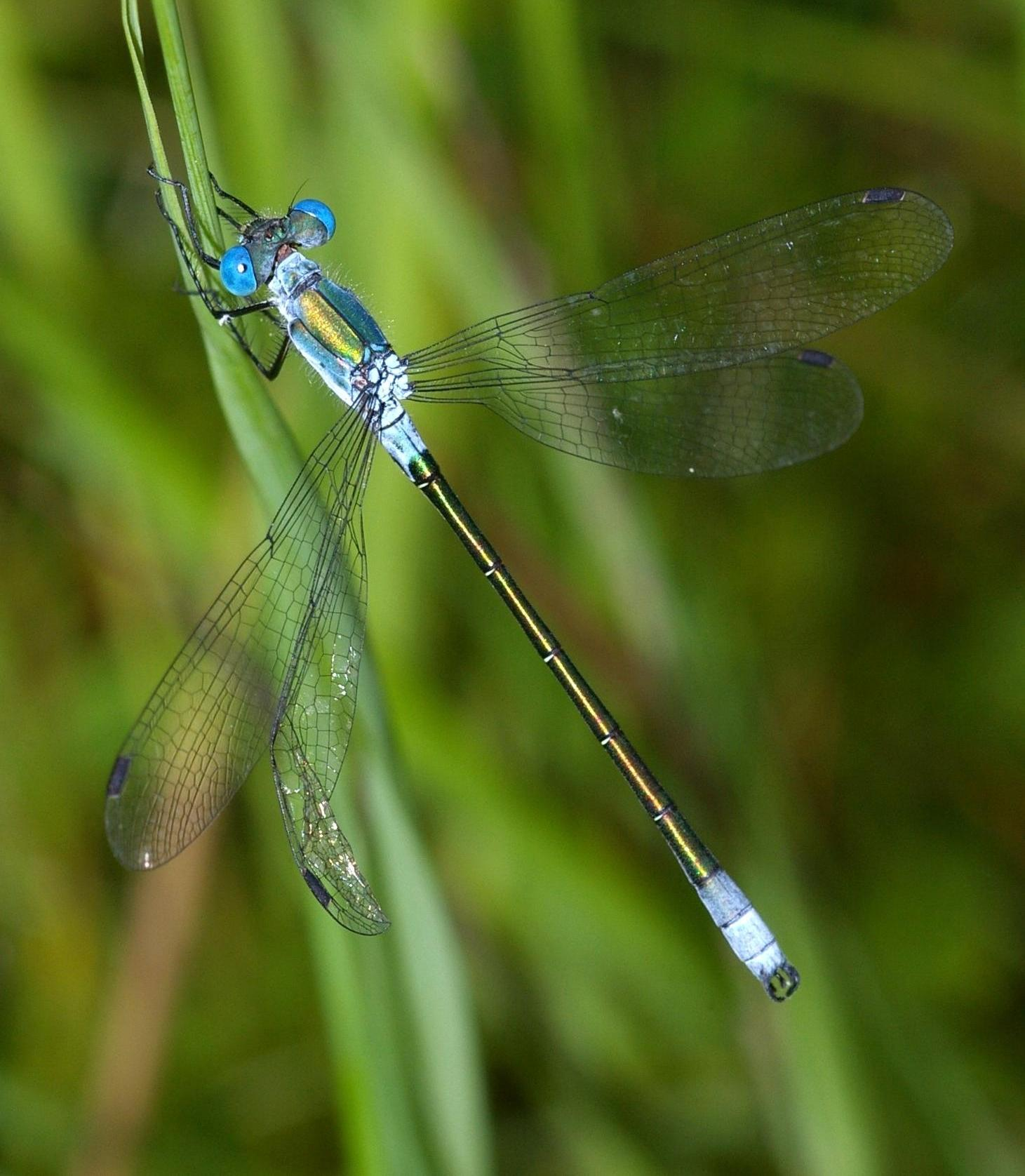 The Emerald Spreadwing Damselfly, Lestes dryas; male specimen.